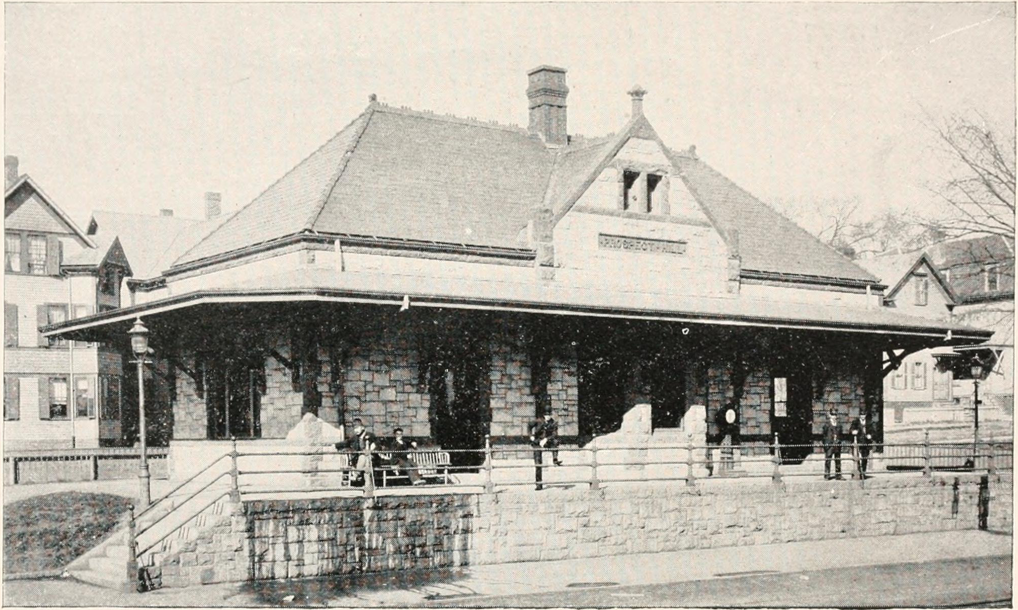 Prospect Hill station from a slide in an 1897 book